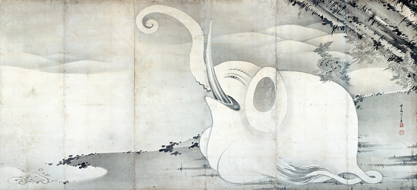 Elephant and Whale Screens, by Ito Jakuchu, Miho Museum, Kōka, Shiga, Japan